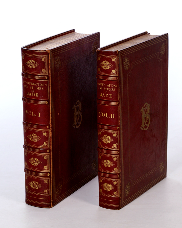 Investigations and Studies in Jade, by Heber Reginald Bishop. This set created for his son Francis Cunningham Bishop.